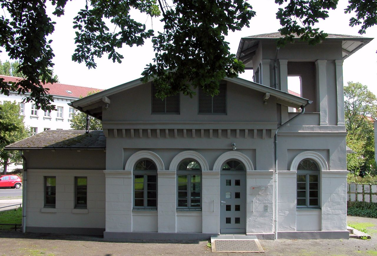 Brunswick, Germany: The “Invalid’s House”.